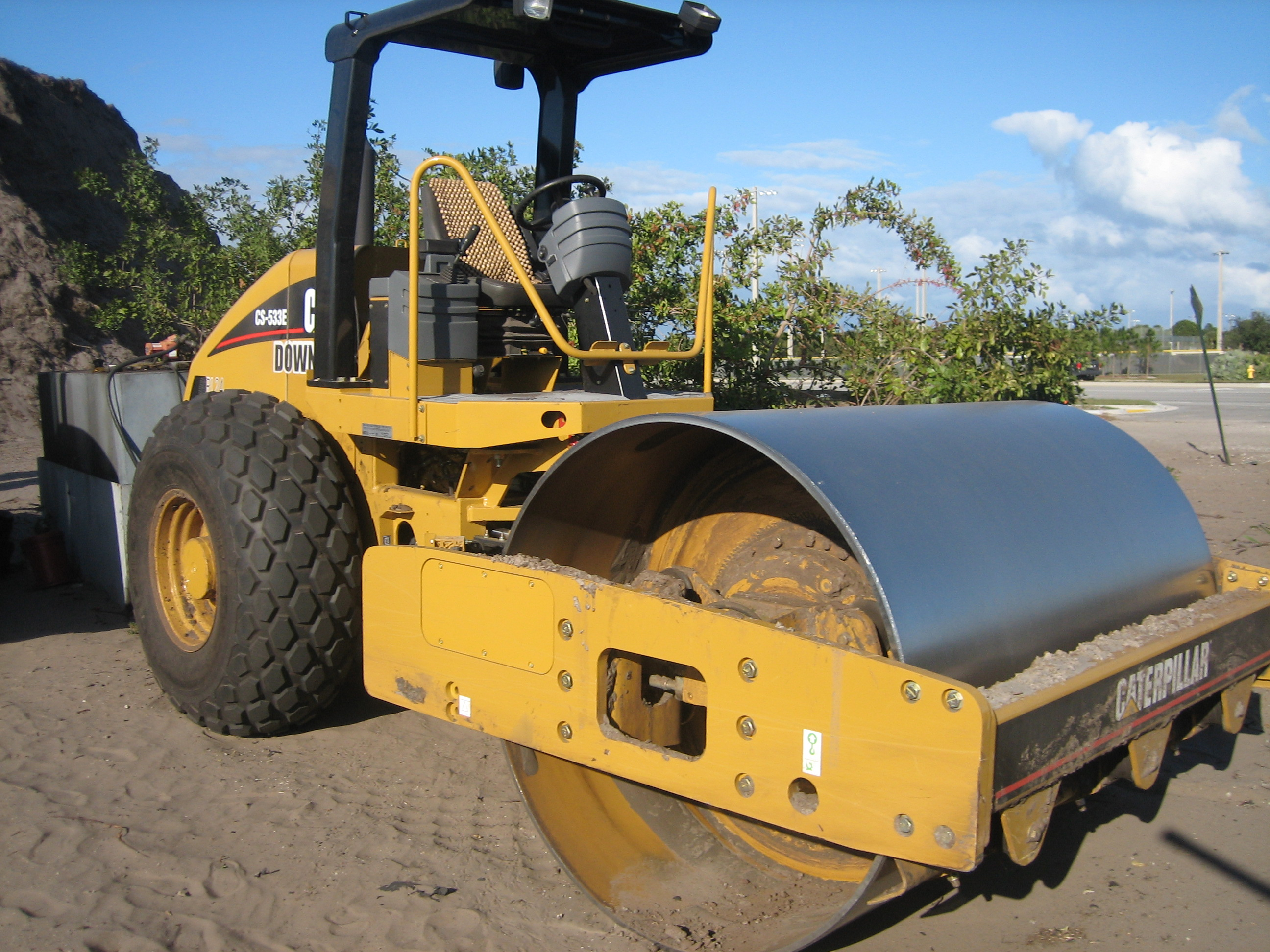 A Caterpillar CS-533E on a residential construction site in South Florida, USA.